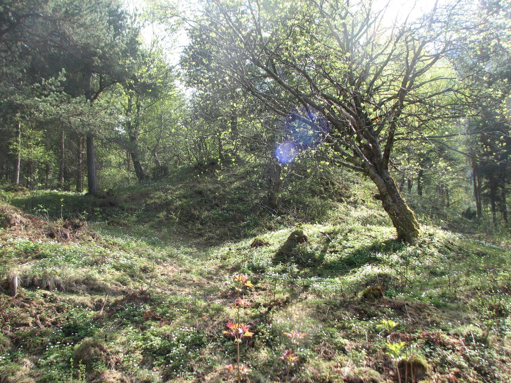 The burials at Løykja from the Iron Age